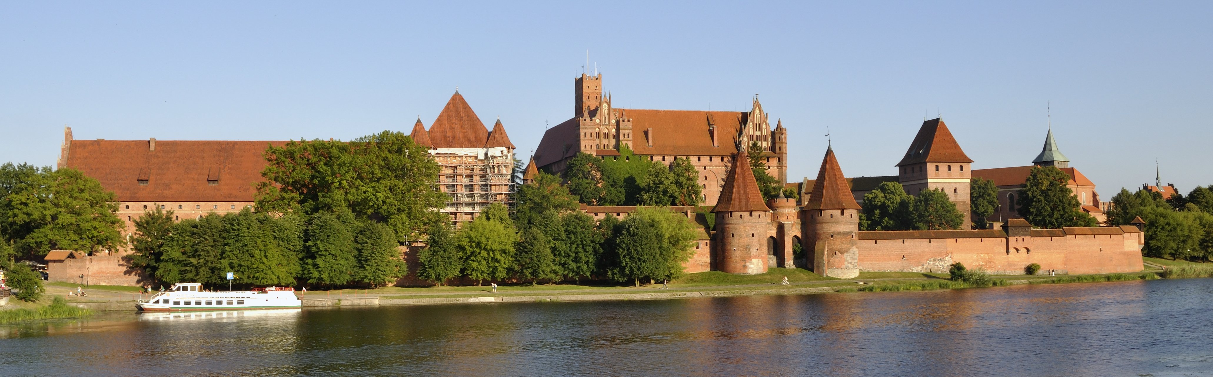 Picture taken in Marienburg/Malbork after Wikimania 2010 conference. Panorama.